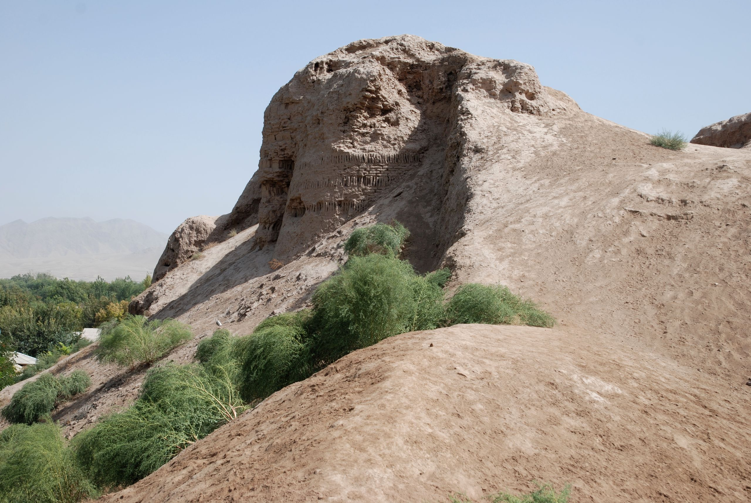 Qabodiyon, Kalai Mir, west side